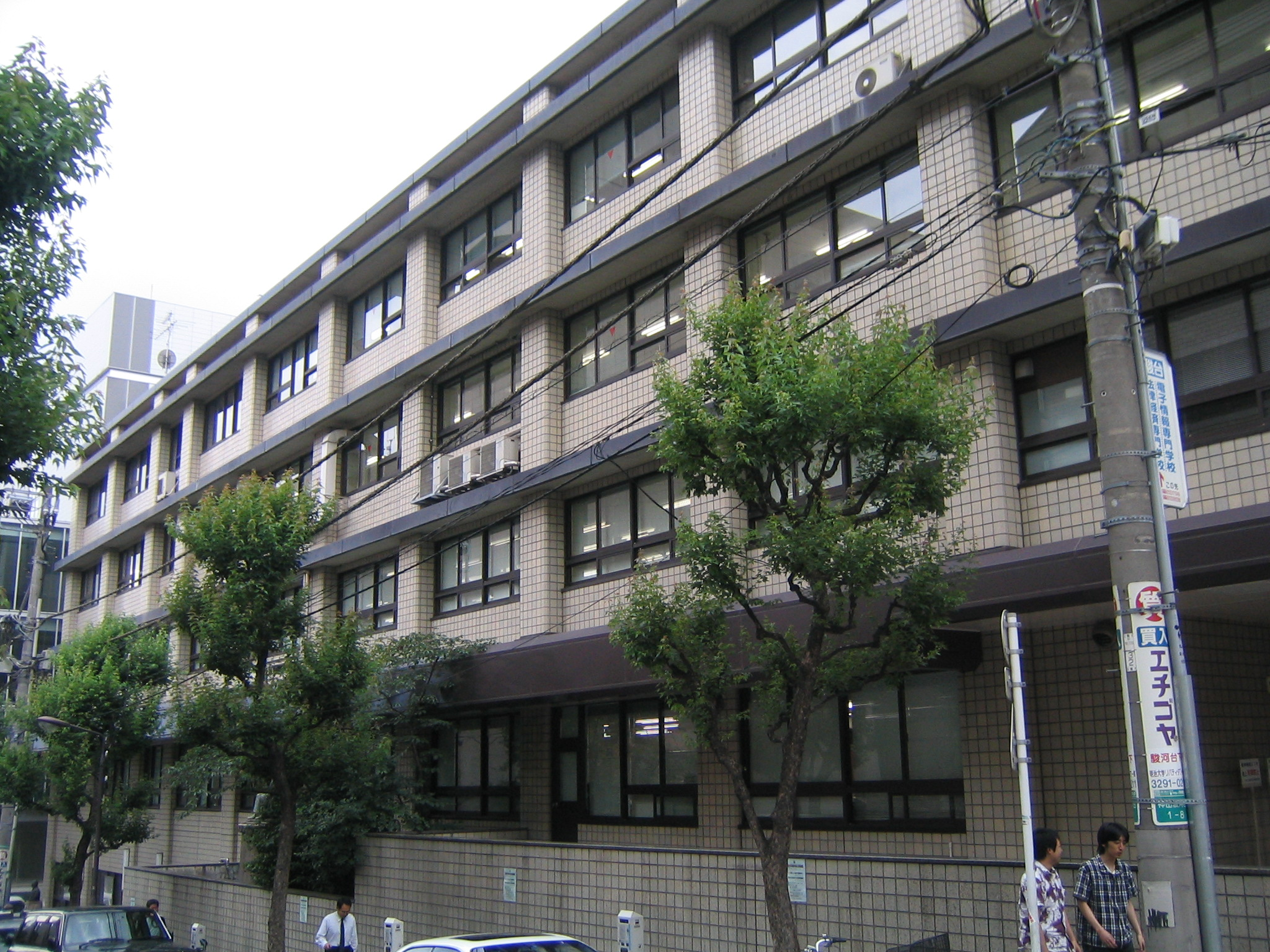 The building no.2 of the School of Dentistry, Nihon University.Located in Kanda-Surugadai, Chiyoda, Tokyo, Japan.